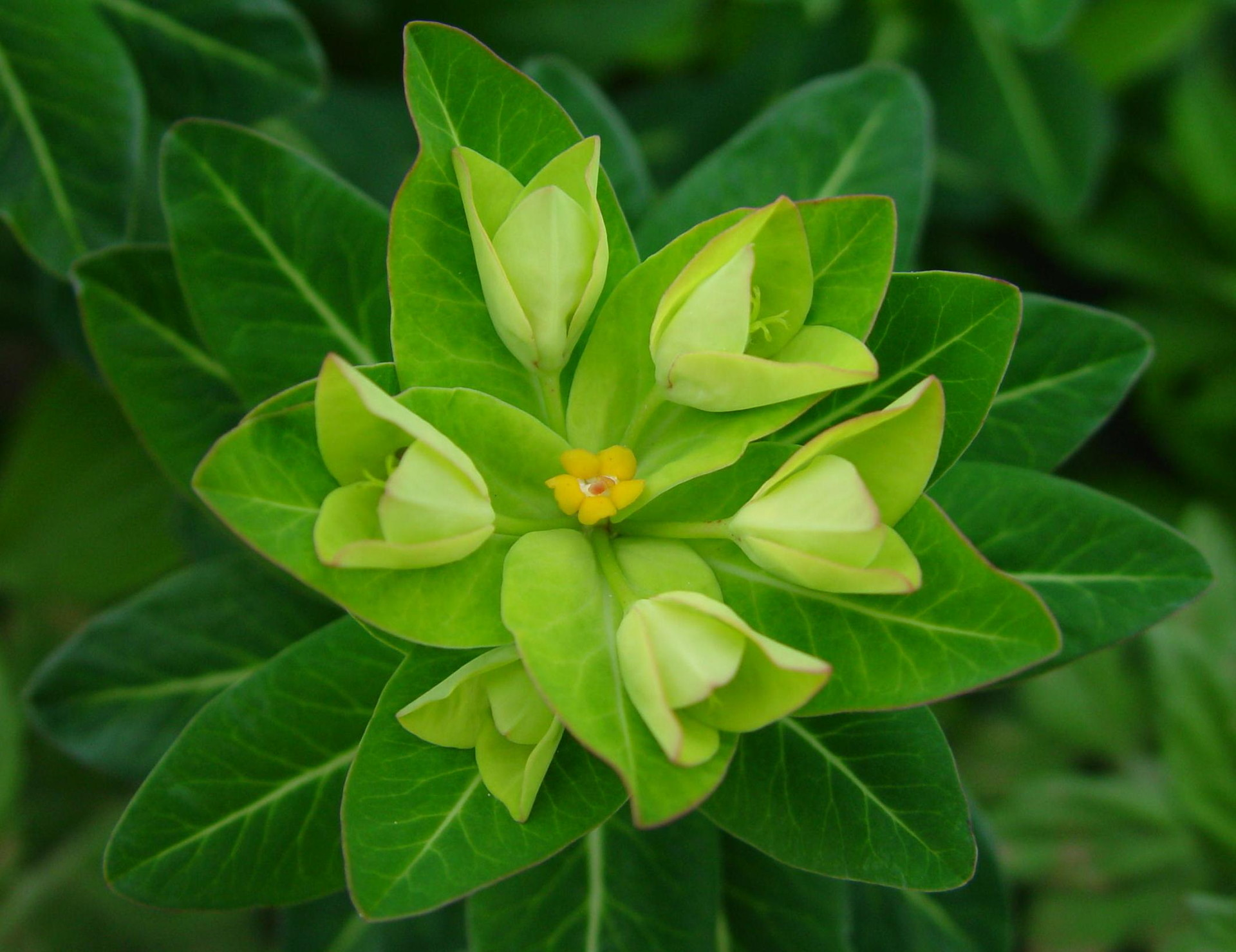 Euphorbia togakusensis Hayata, in Mount Sannomine, Ryōhaku Mountains, Japan.